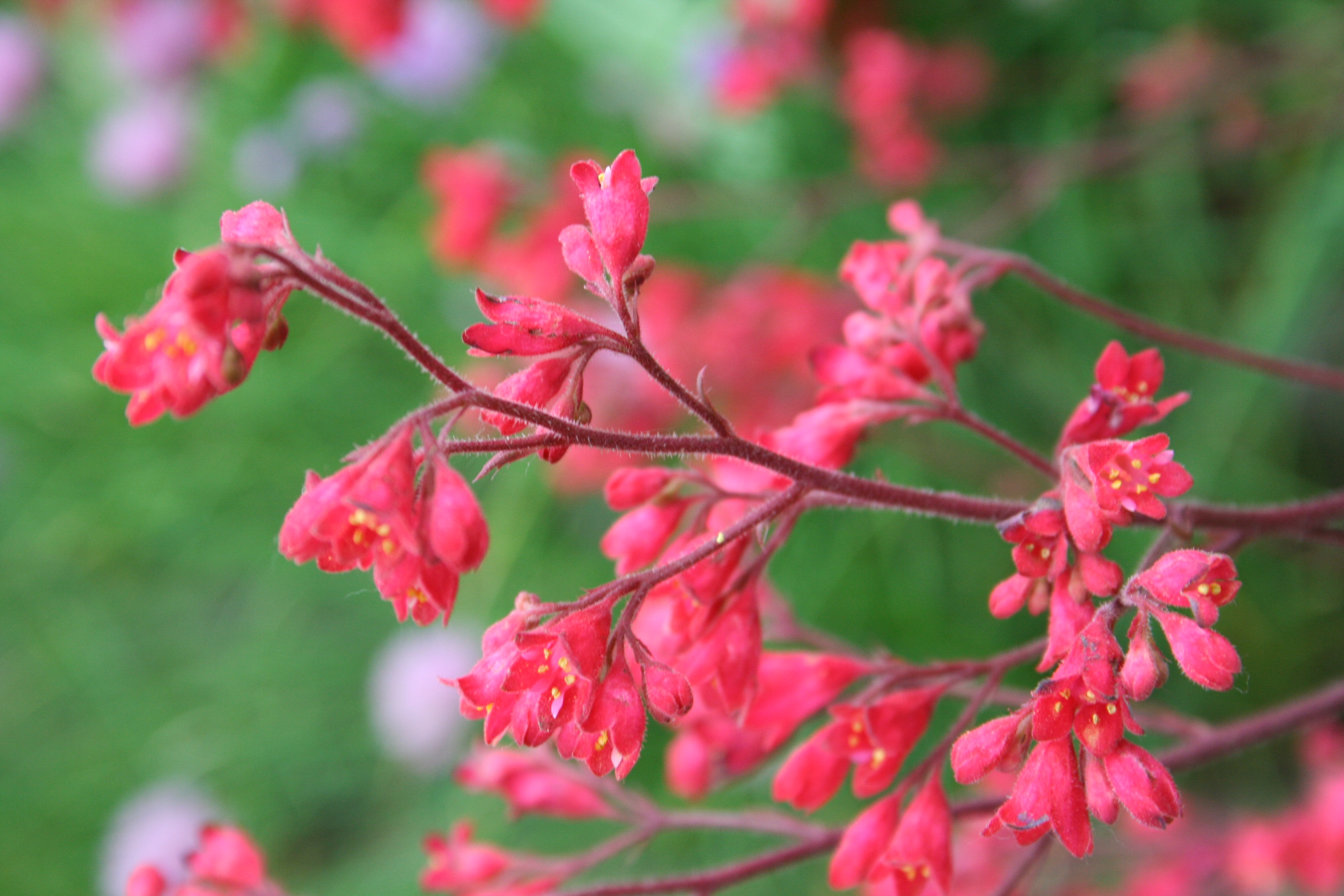 Heuchera x brizoides (Saxifragaceae) in Frankfurt-Sindlingen